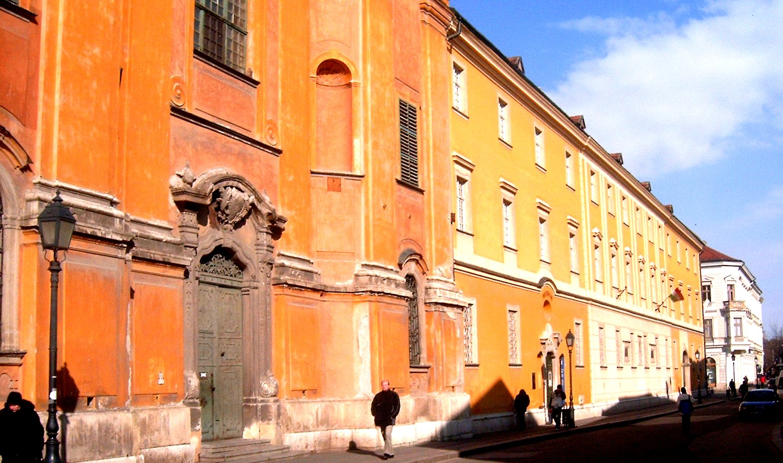 Main street of Székesfehérvár, Hungary